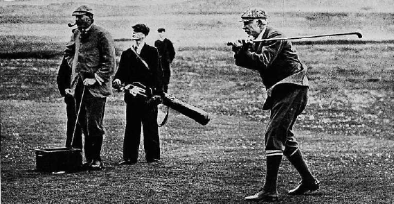 Horace Hutchinson driving off in the final match at the Amateur Championship of Great Britain 1903